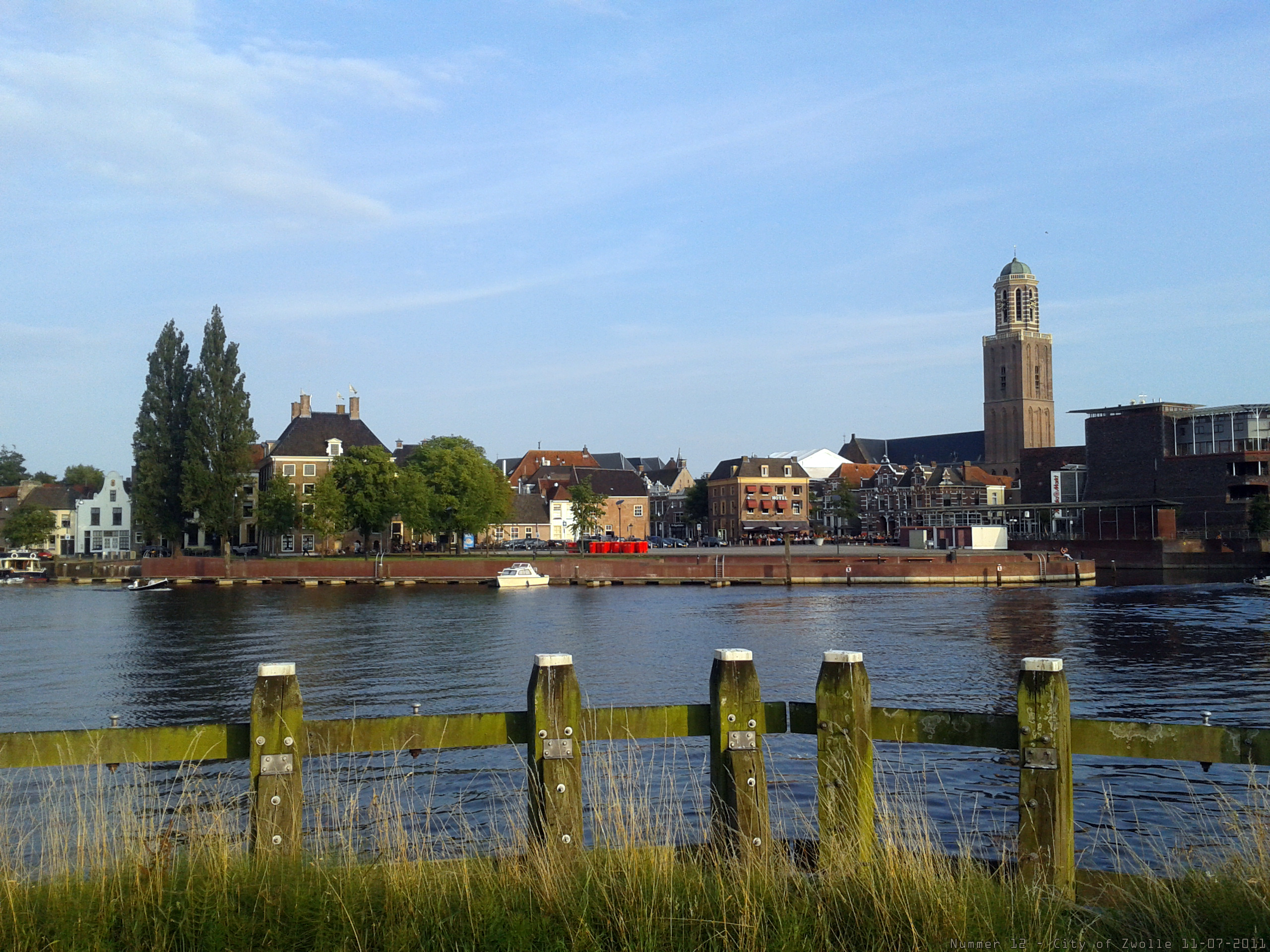 View on the city of Zwolle